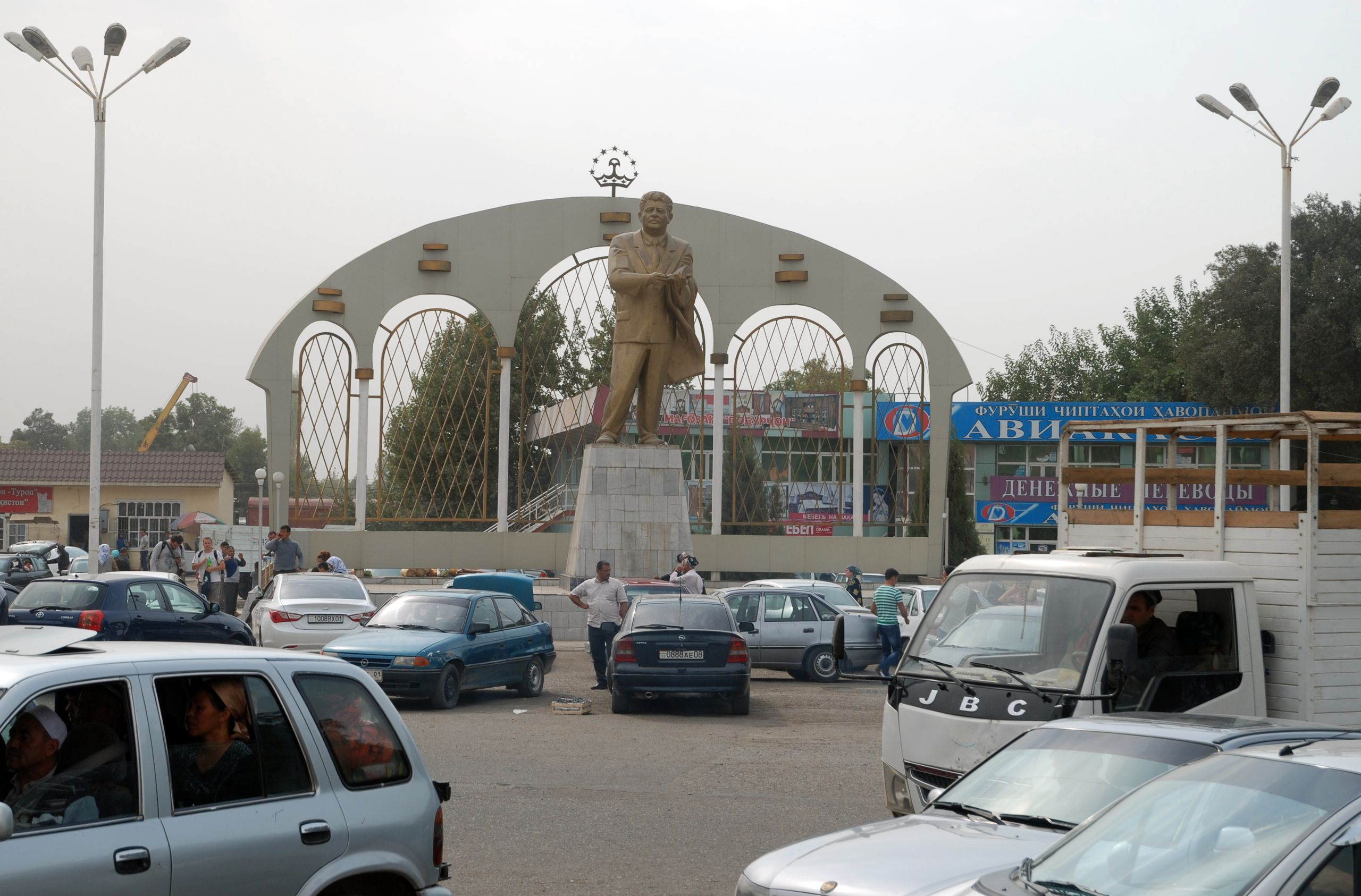 Tursunzoda, Mirzo Tursunzoda